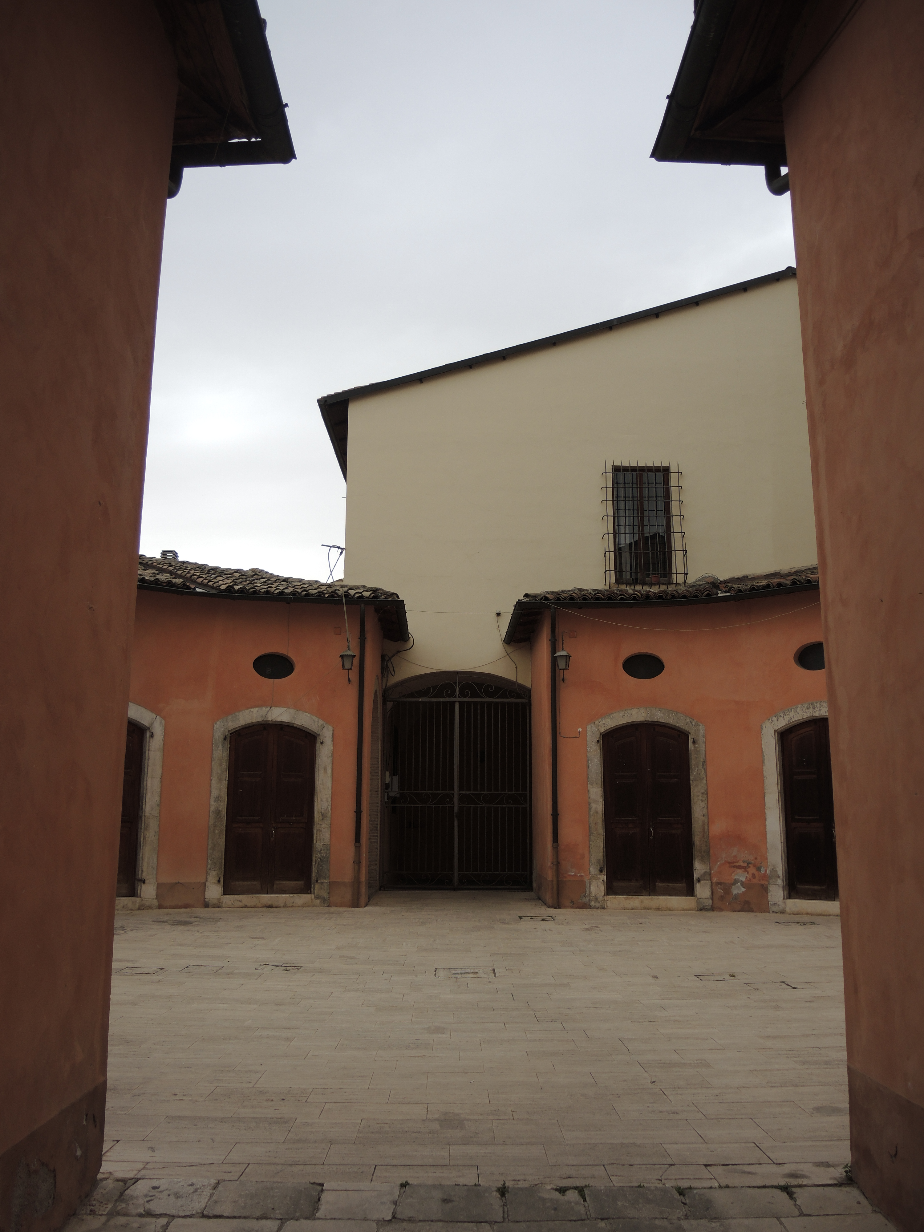 Sulmona: Chiesa di San Francesco della Scarpa